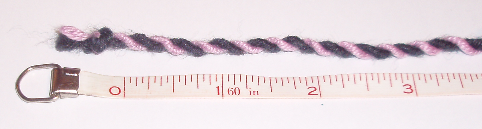 close up of yarn next to a tape measure to show how the number of twists per inch. Or whatever other thing can be shown by a close up of plied yarn, where the two singles are different colors.